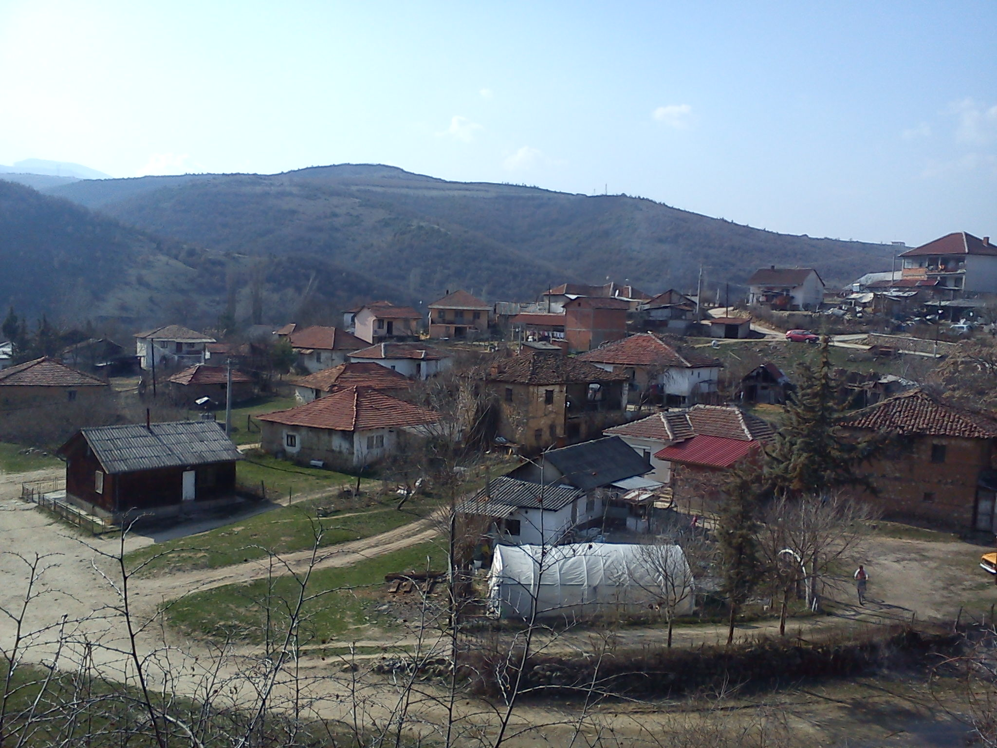 Novo Selo, Zelenikovo Municipality, Macedonia